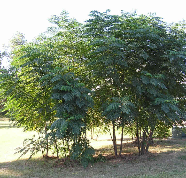 Picture of a clump of Aralia spinosa, taken in Georgia, USA during the summertime.